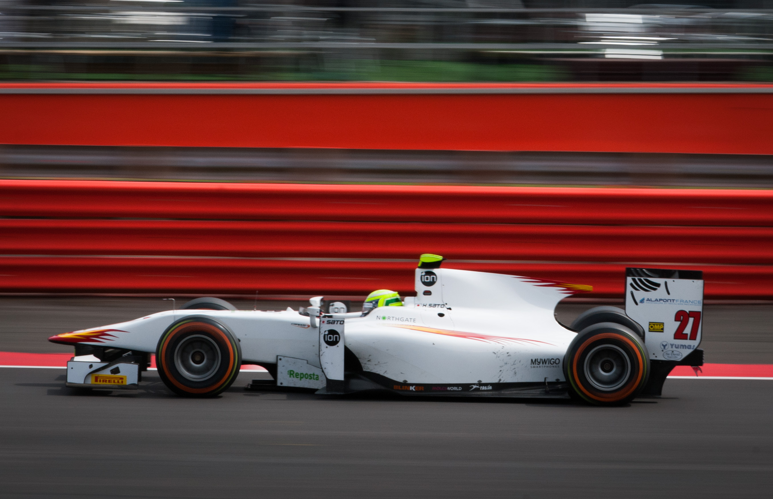 Kimiya Sato driving for the Campos Racing Silverstone. Round 5 of the 2014 GP2 Series Championship.